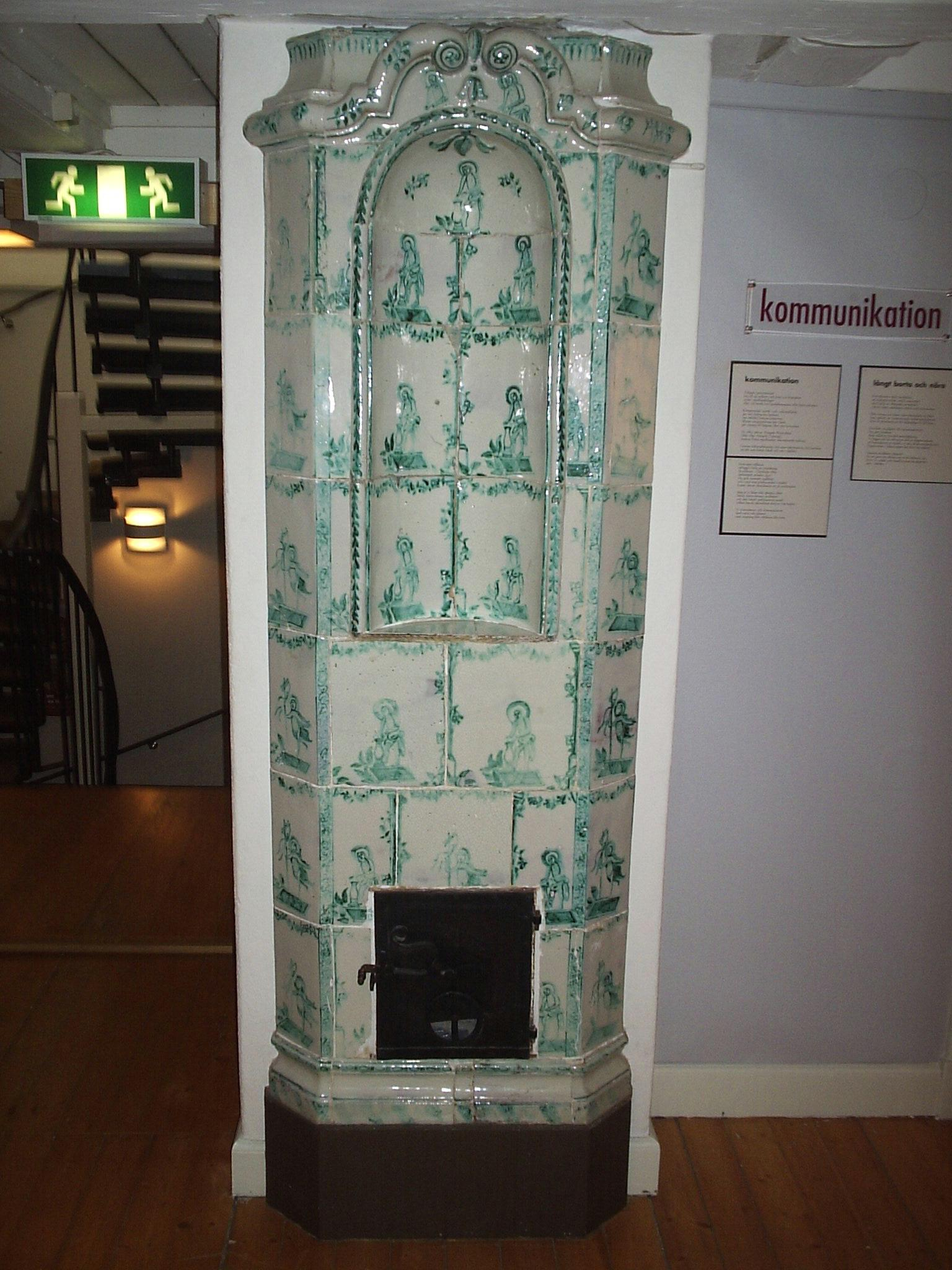 Photo by Harri Blomberg.